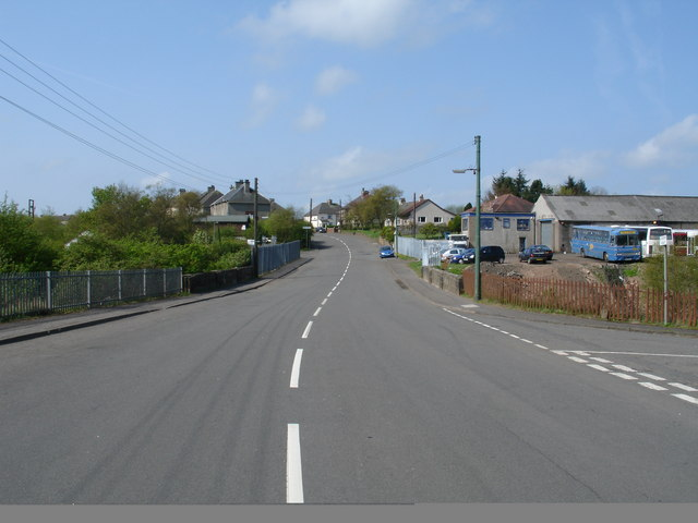 Greengairs The main street looking west. Jays Coaches, the only sizeable firm in the locality is on the right.